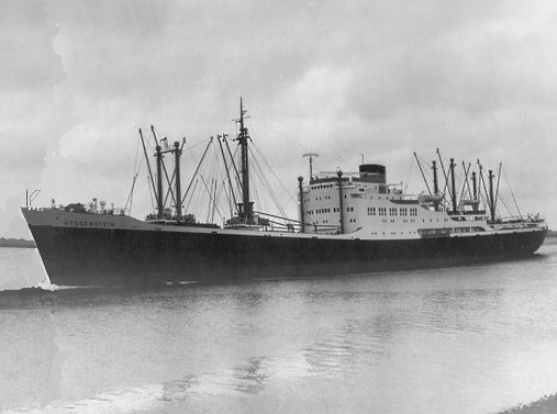 Combined ship MS Hessenstein of the North German Lloyd, Bremen in East Asia Service - 1954-55